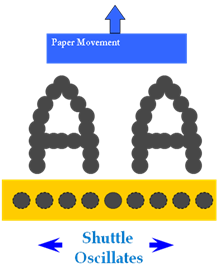 Illustration which describes how line matrix printers work.